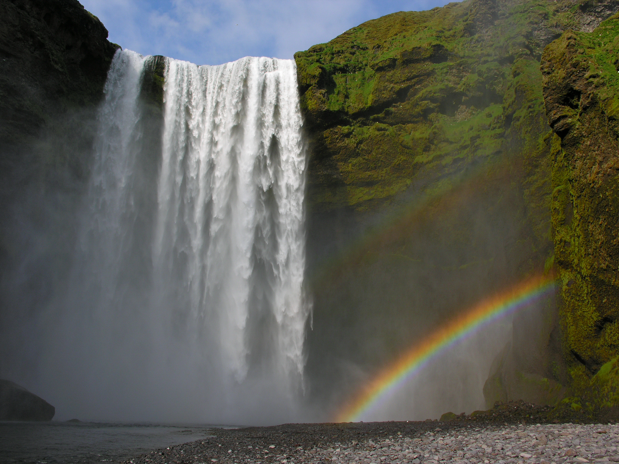 Iceland, Skogafoss in the last sunshine of the day.